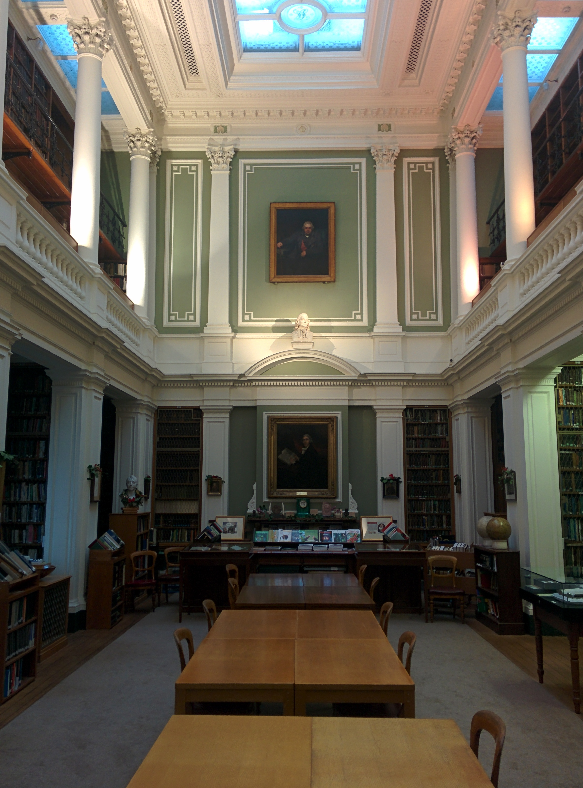 The main library at the Linnean Society of London